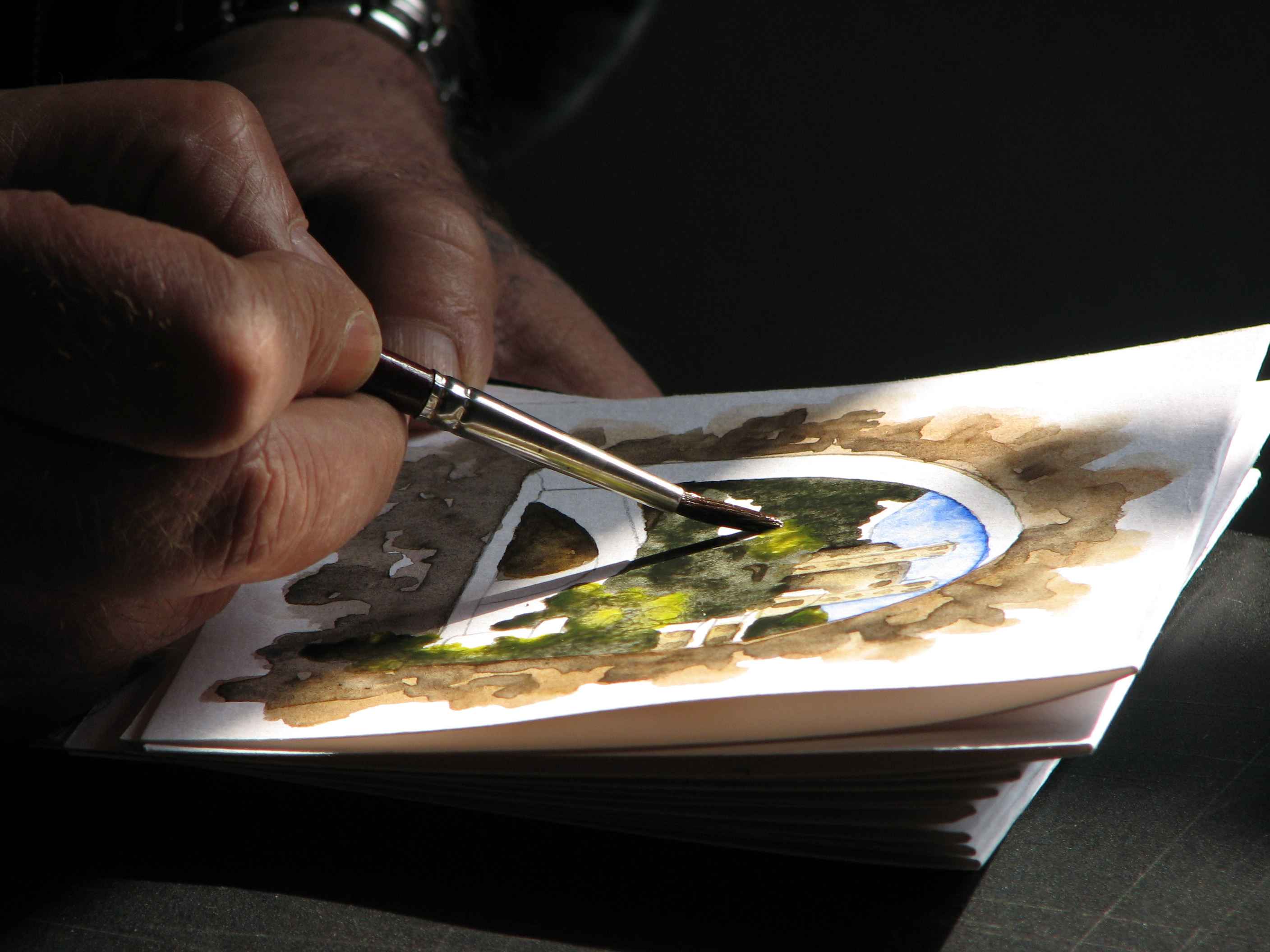 A watercolor painter working in Dolceacqua (Liguria, Italy).